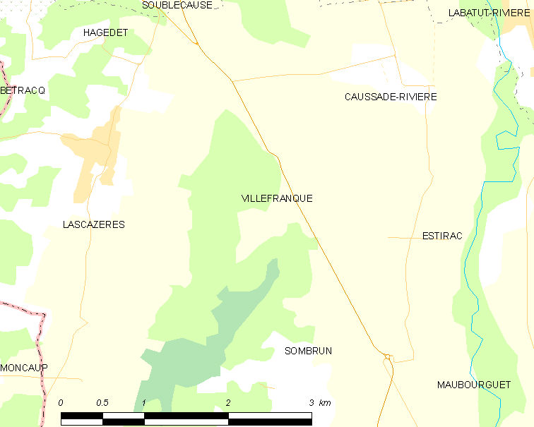 Map of French municipality